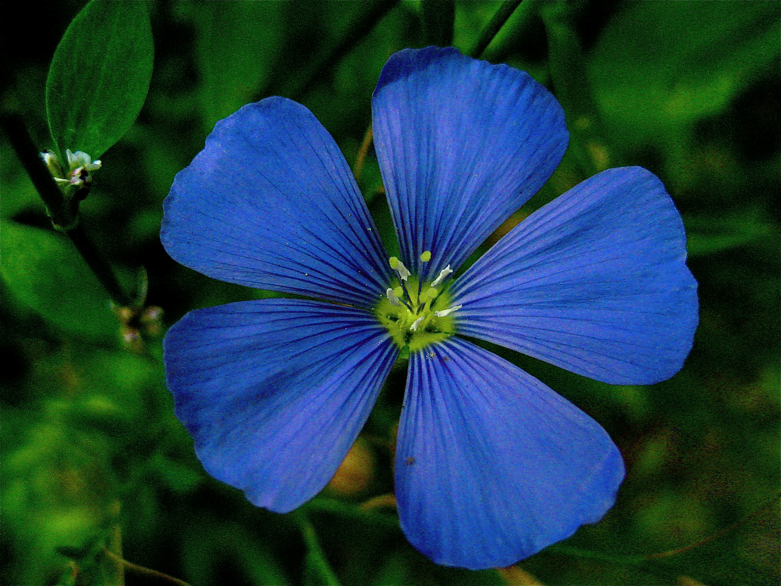 Photograph of a Perennial Flax or Blue Flax, scientifically referred to as a Linum perenne, that was captured using the digital macro mode, in the neighborhood called Capitol Hill, Denver, Colorado USA.